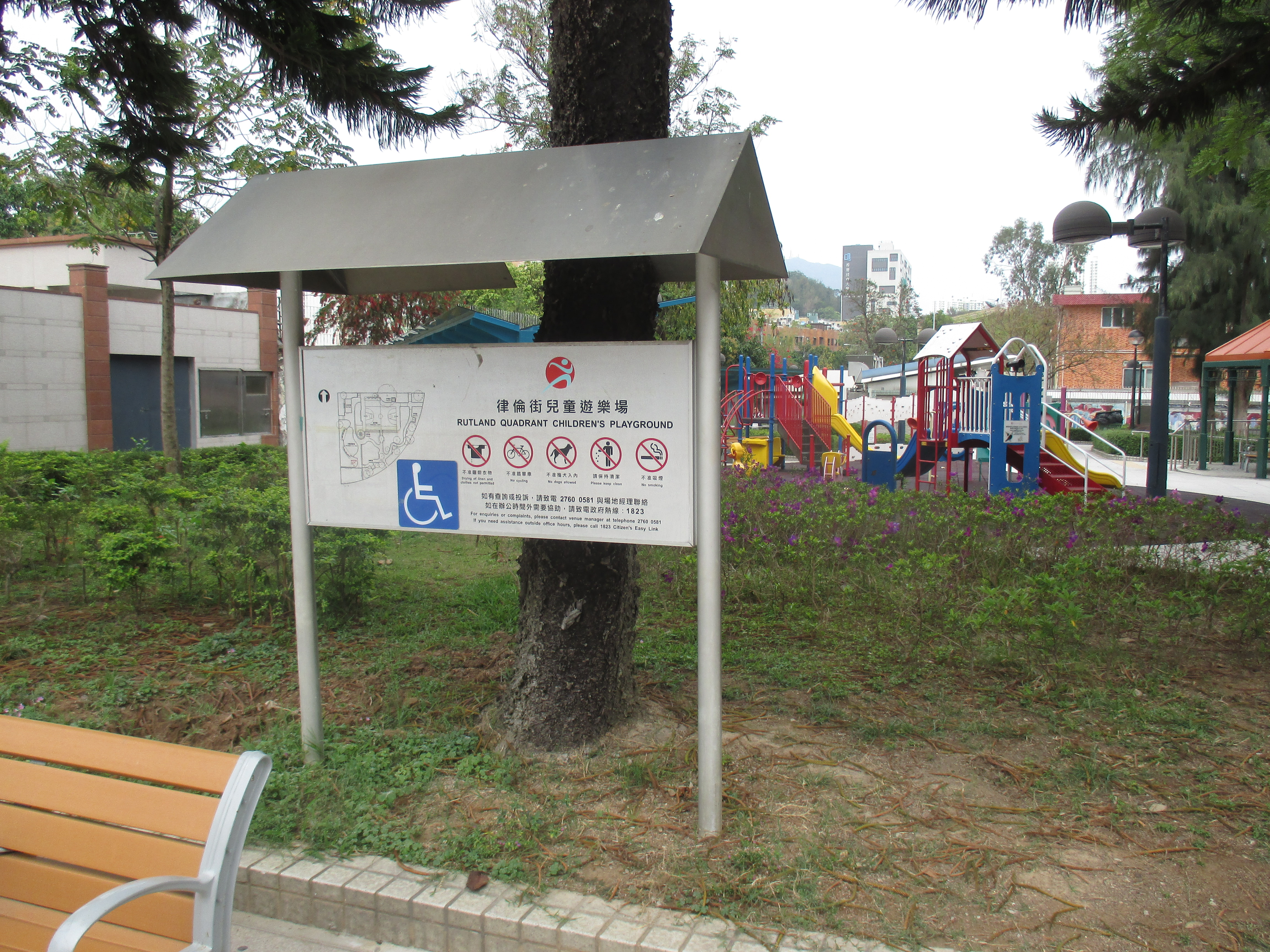 Rutland Quadrant Children's Playground